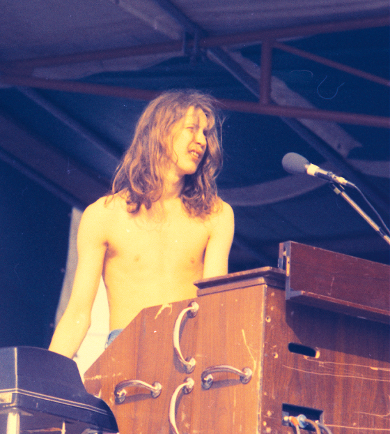 Rabbit Bundrick at Hyde Park concert, London, 1974.